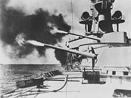 The Dutch light cruiser Hr. Ms. De Ruyter firing a salvo while on manouvers from its base at Surabaya (formerly Soerabaja), Java, Netherlands East Indies.